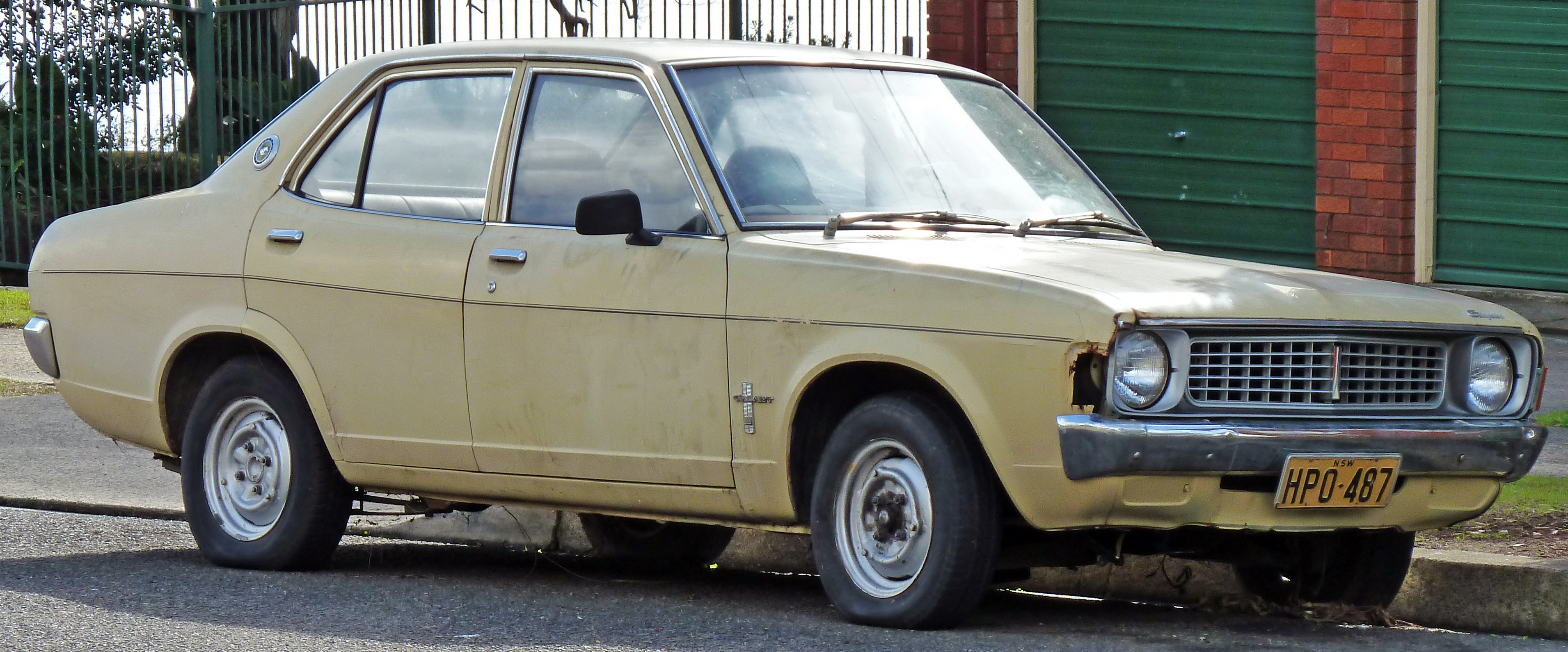 1976 Chrysler Galant (GC) XL sedan. Photographed in Sylvania, New South Wales, Australia.